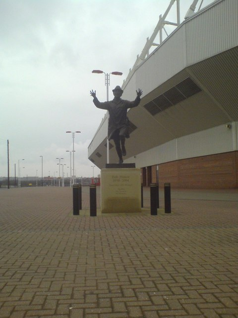 Bob Stokoe Memorial Statue, Stadium of Light